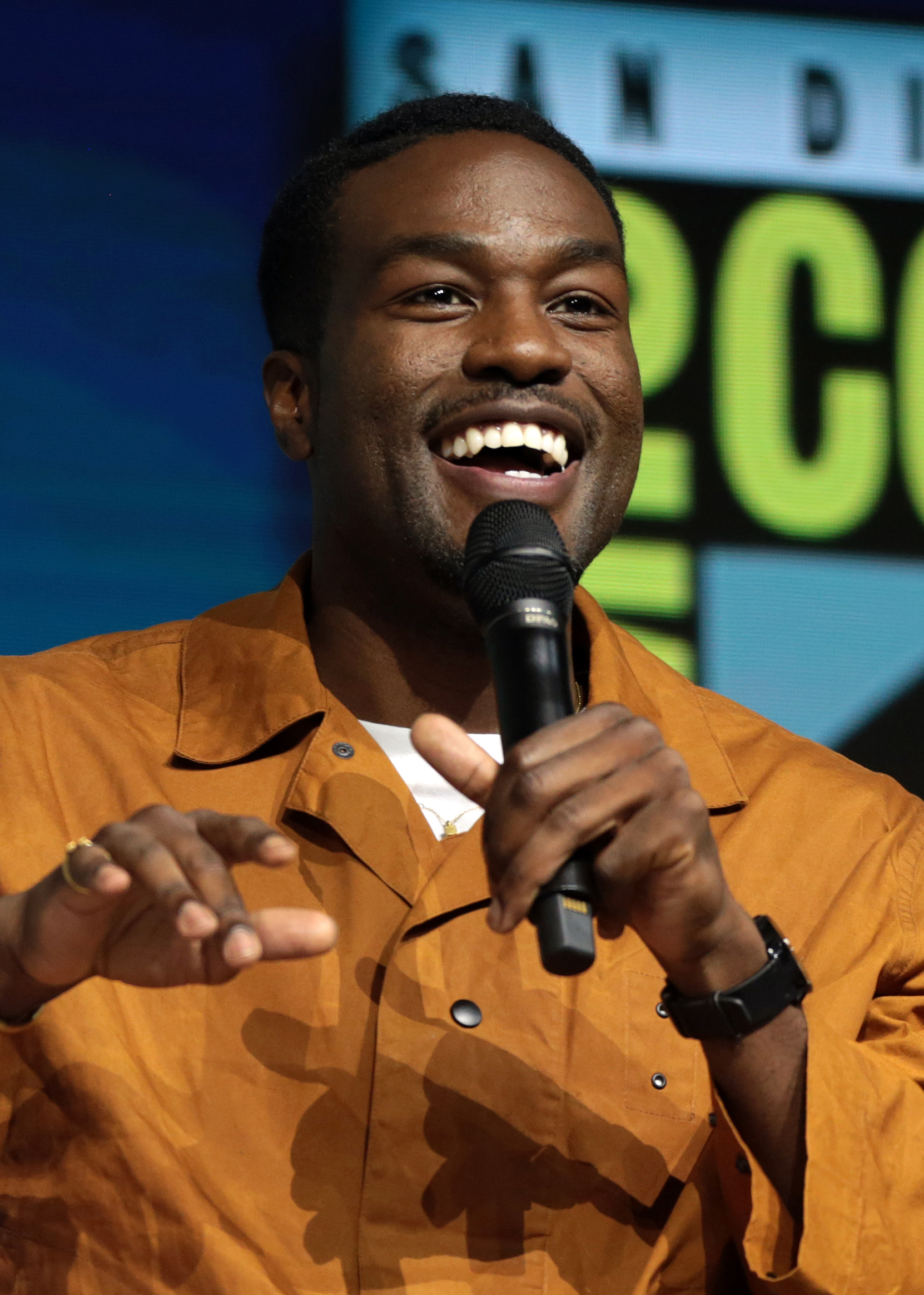 Yahya Abdul-Mateen II speaking at the 2018 San Diego Comic-Con International in San Diego, California.